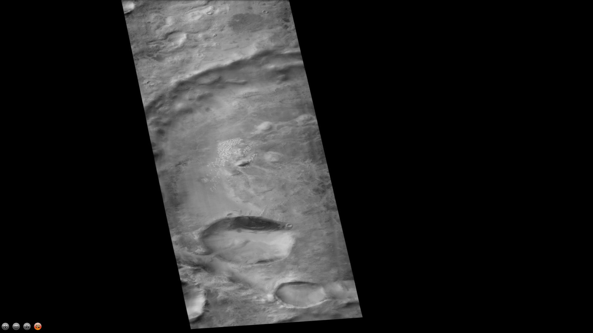 Vinogradsky Crater, as seen by ctx